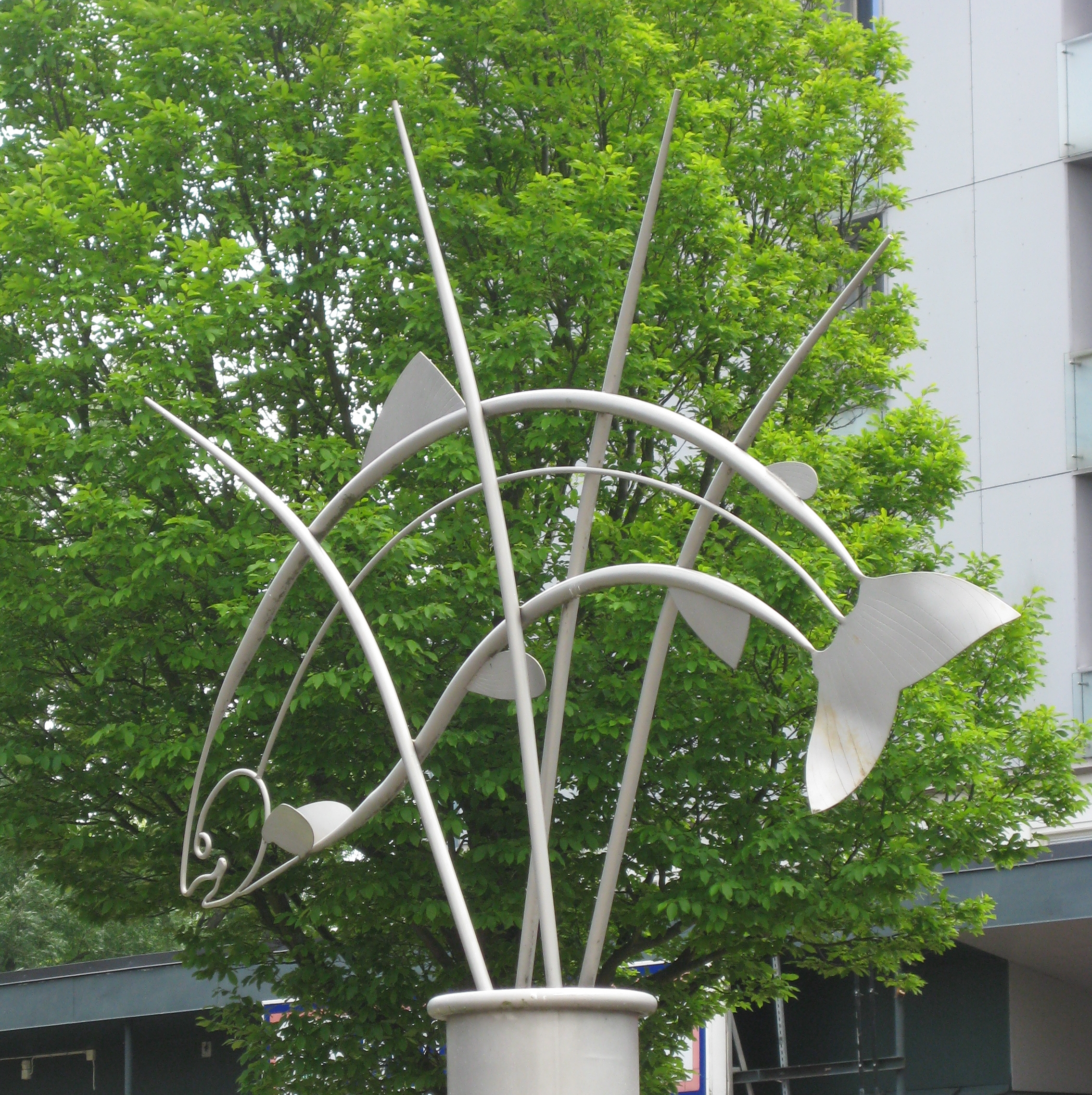 Laxlek, sculpture by Carl-Bertil Widell at Lorensborg, Malmö, Sweden.